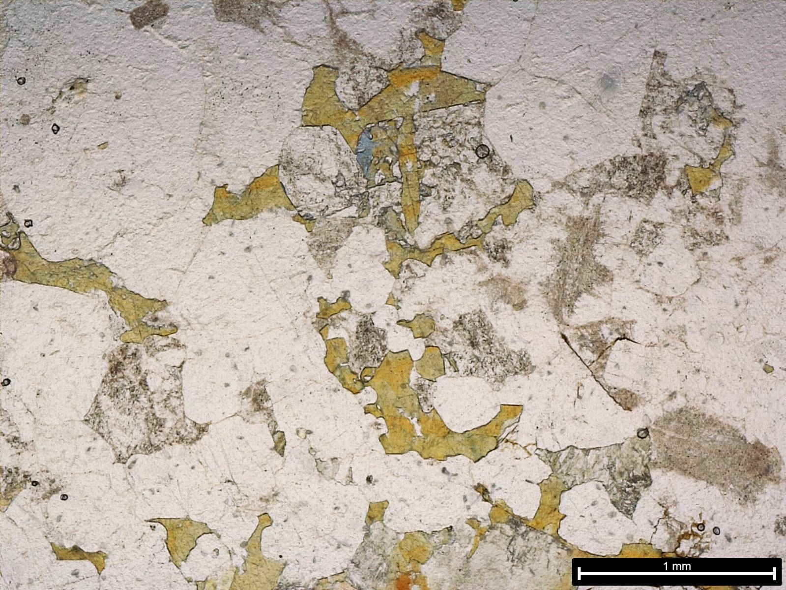 Figure 5b. Plane polarized light photomicrograph of tourmaline, slightly rotated from 5a, in sample CV-114 from the Strathbogie Granite, Australia.